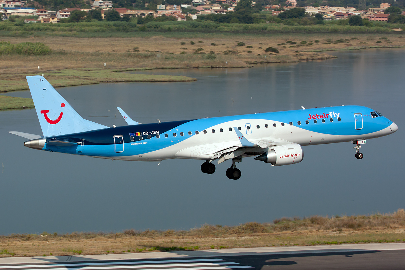 Jetairfly Embraer 190-100STD landing at Corfu International Airport